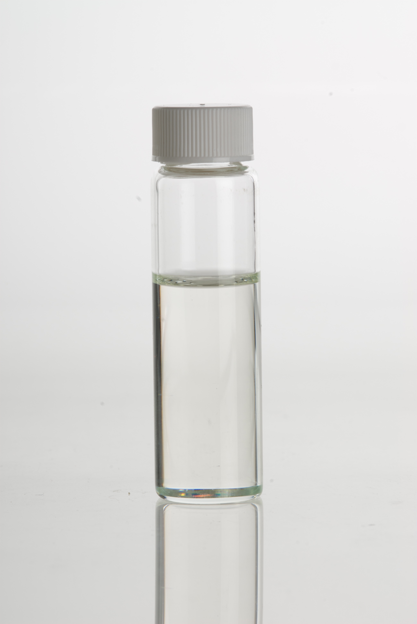 Pine (Pinus sylvestris) Essential Oil in clear glass vial